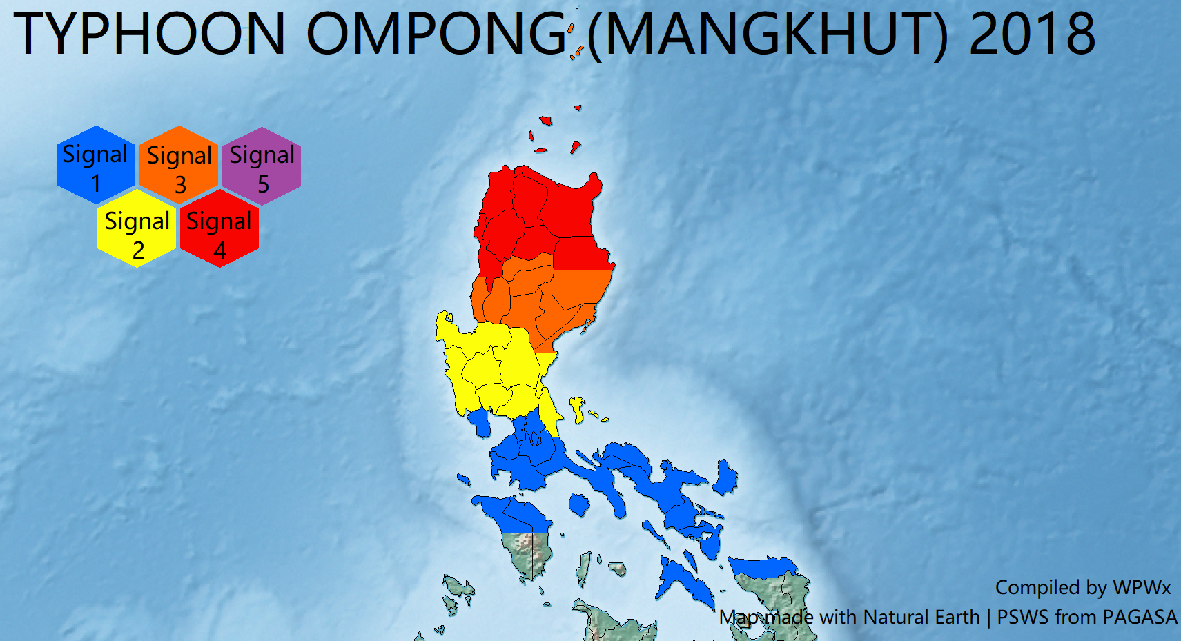 The highest Public Storm Warning Signal raised throughout the country when Ompong (Mangkhut) traversed over the Philippines